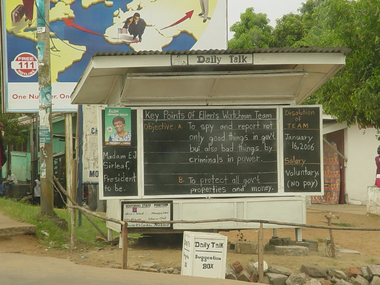 News stand "The Daily Talk" in Monrovia, Liberia, reporting the policies of incoming president Ellen Johnson-Sirleaf in December 2005